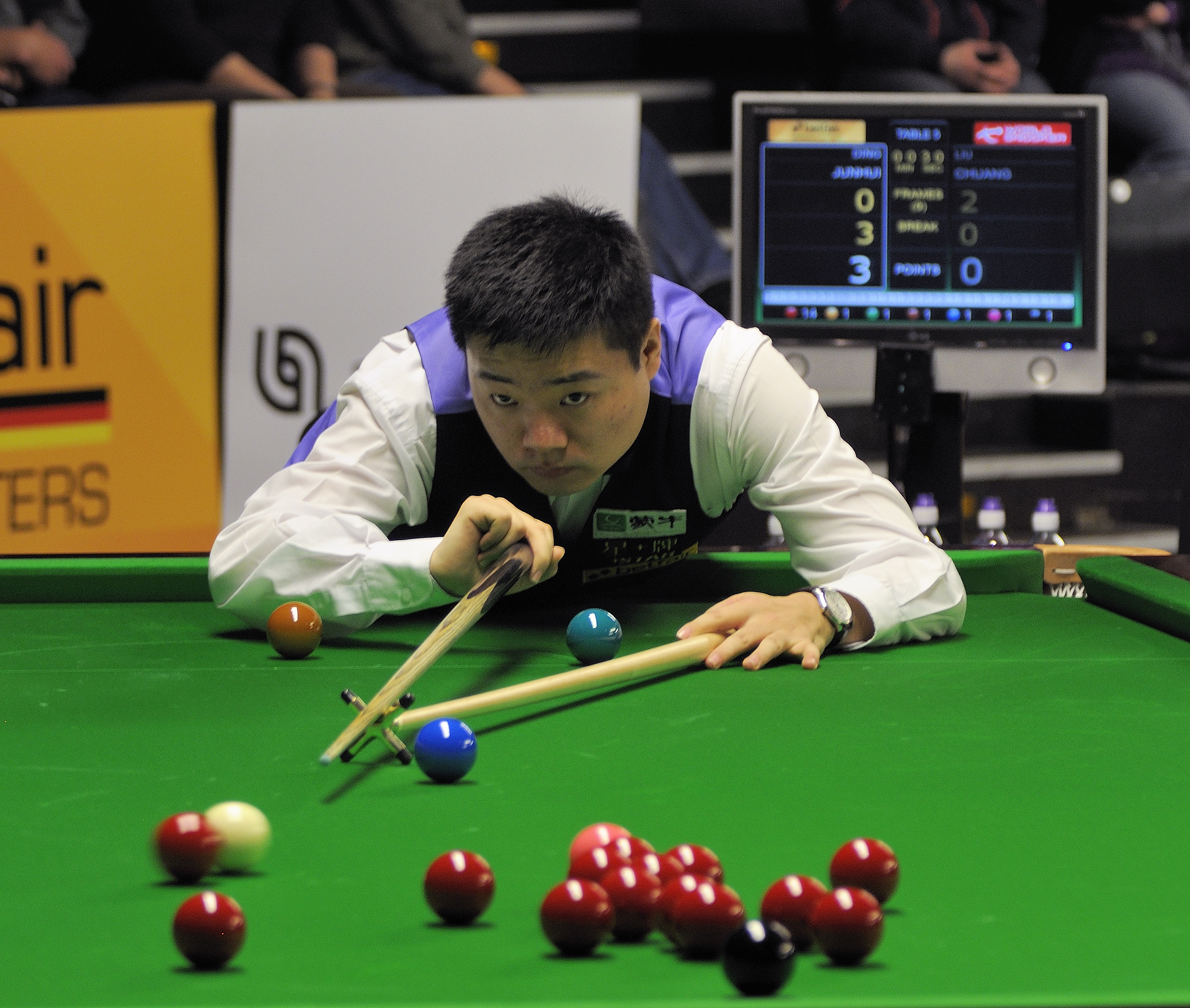 Picture taken in Berlin during the Snooker German Masters in 2013. Ding Junhui.